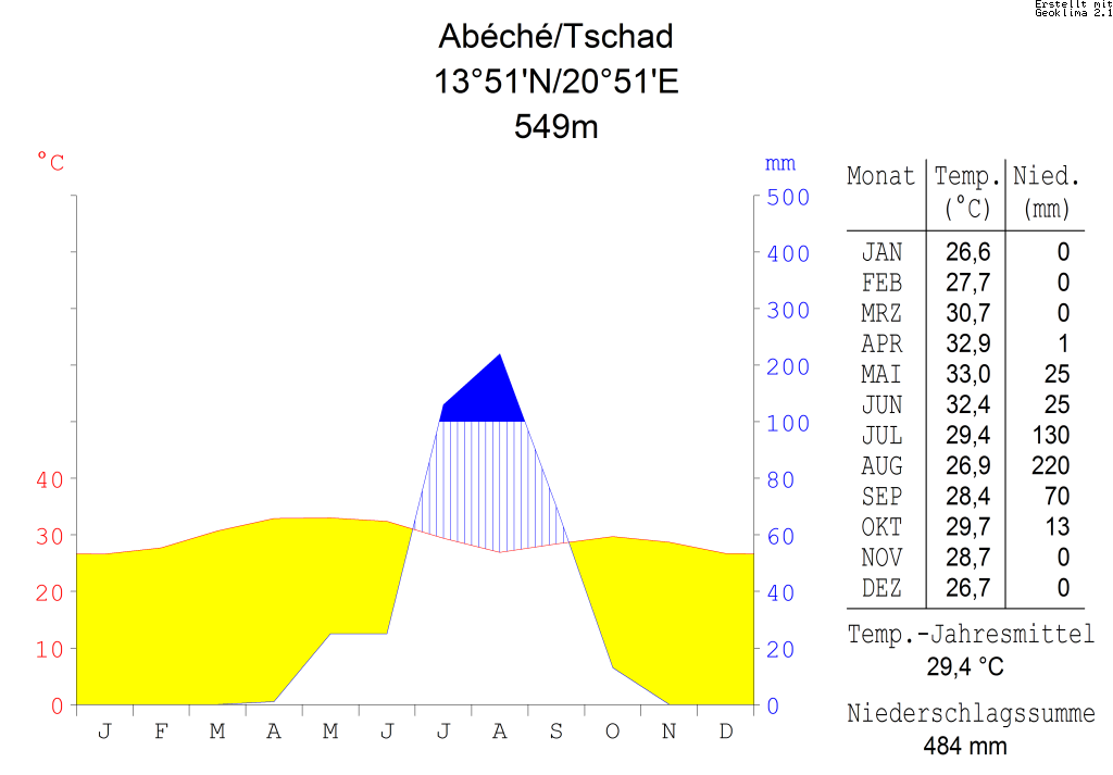 climate chart in the format by Walther and Lieth, metric, °Celsisus and millimeters, made with Geoklima 2.1